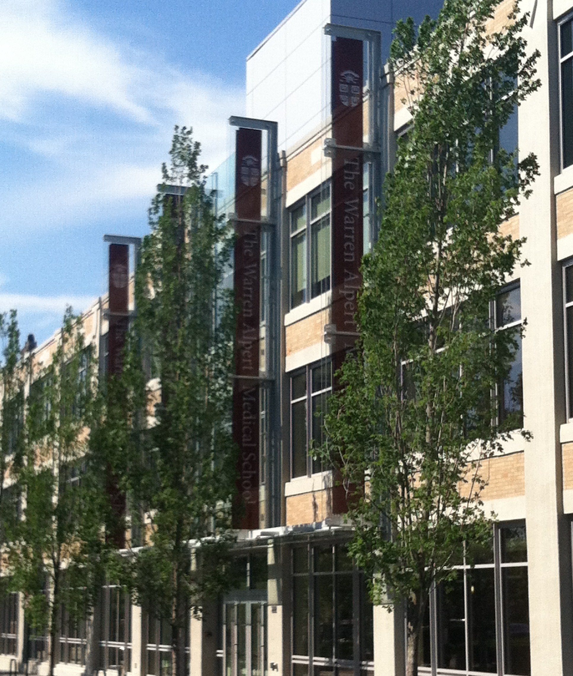 Entrance to the new home of Brown Alpert Medical School in a converted jewelry factory in the Jewelry District of Providence, Rhode Island.